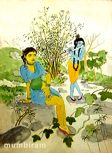 Foto of the original watercolor painting by Artist Mumbiram of India. It displays Radha and Krishna meeting at a beautiful spot at a stream. The Gopi named Radha from the Indian ancient scriptures is here shown as an ordinary girl that could be anybody. That is so unique about this painting, because traditionally Indian paintings would show stylised Gopis.